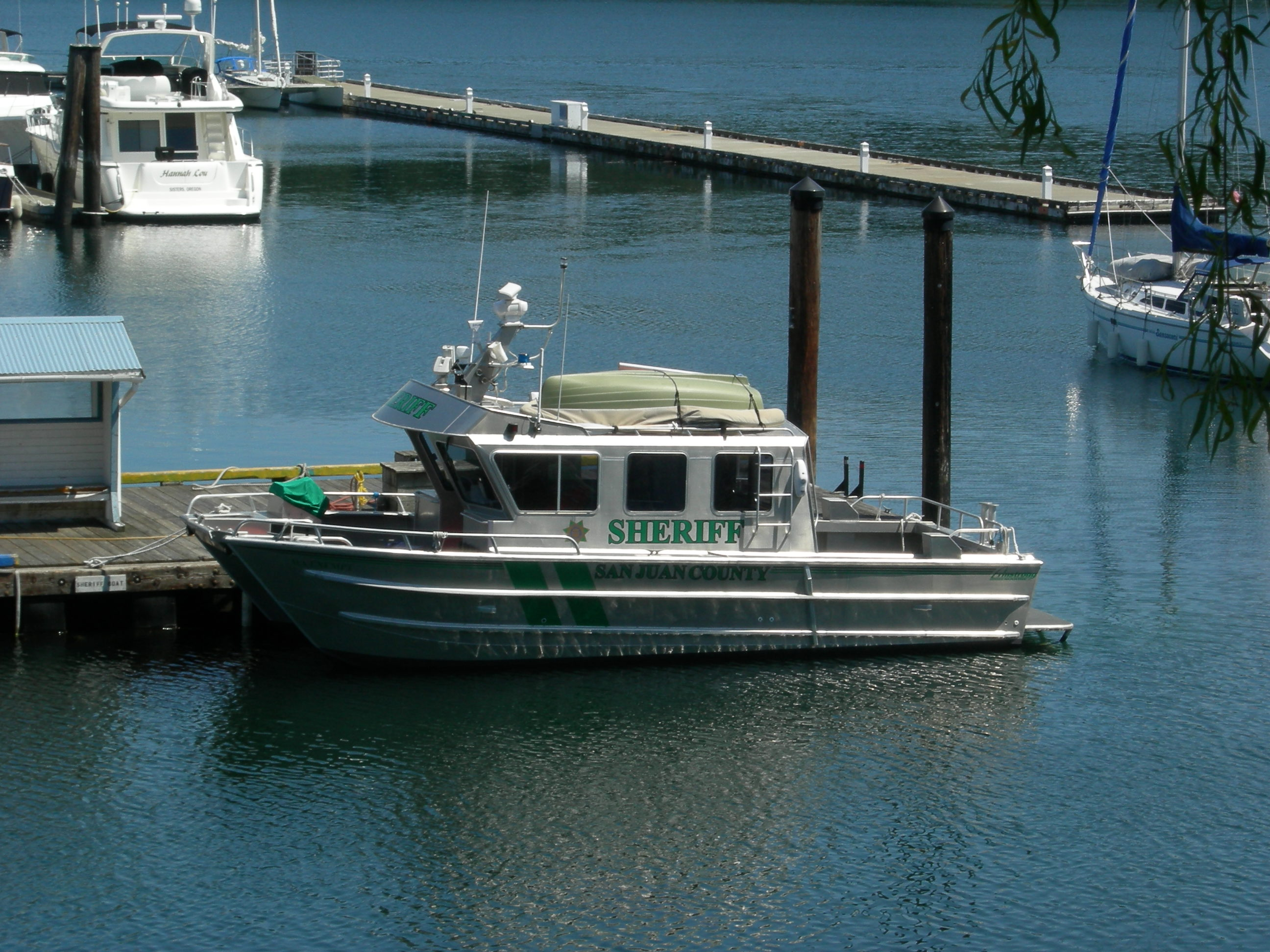 San Juan Co (WA) Sheriff Patrol Boat pictured in 2009